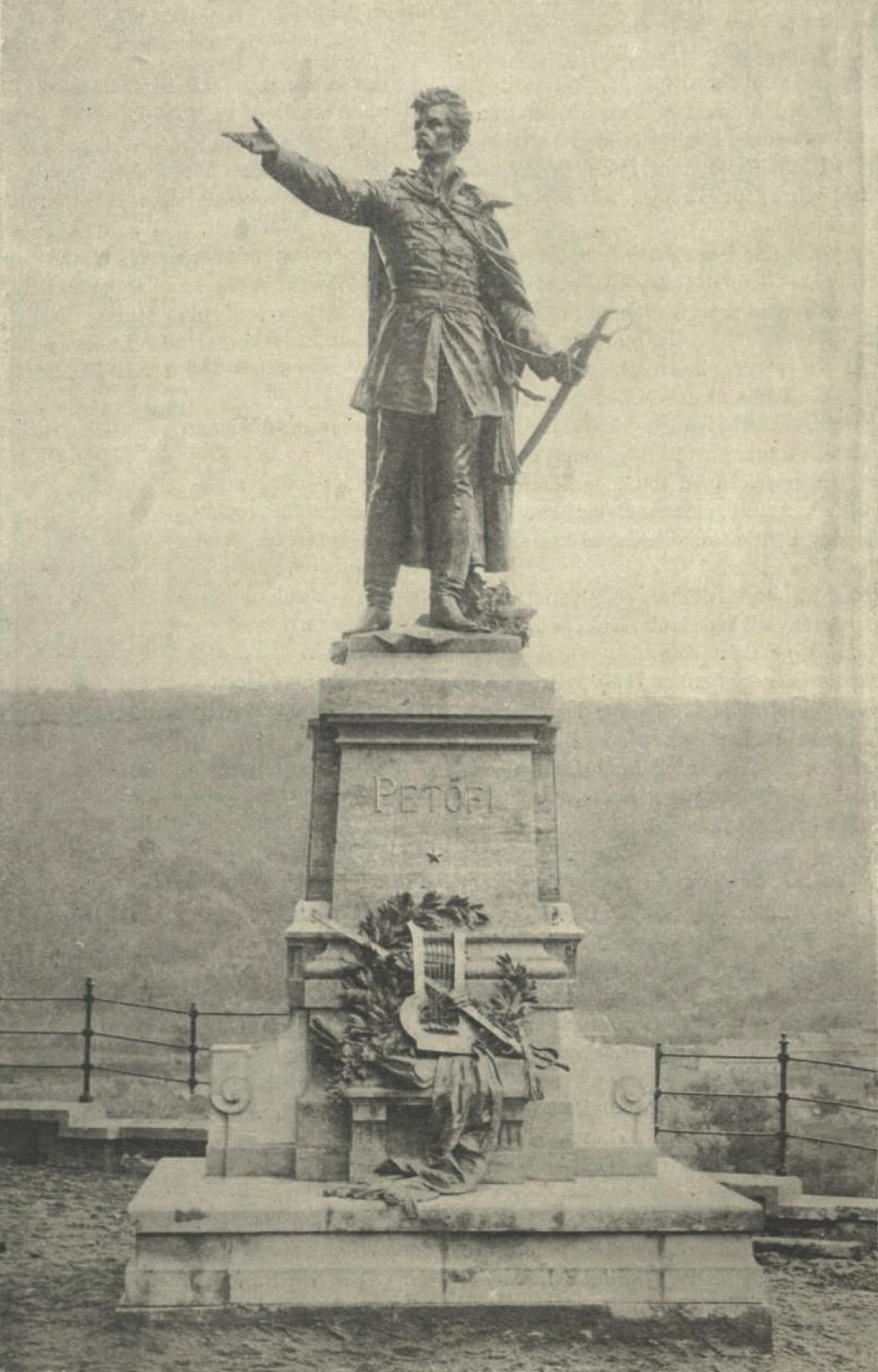 Sándor Petőfi statue in Sighişoara. Sculptor: Miklós Köllő.